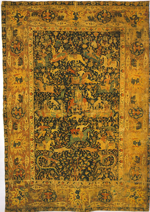 Sanguszko carpet.